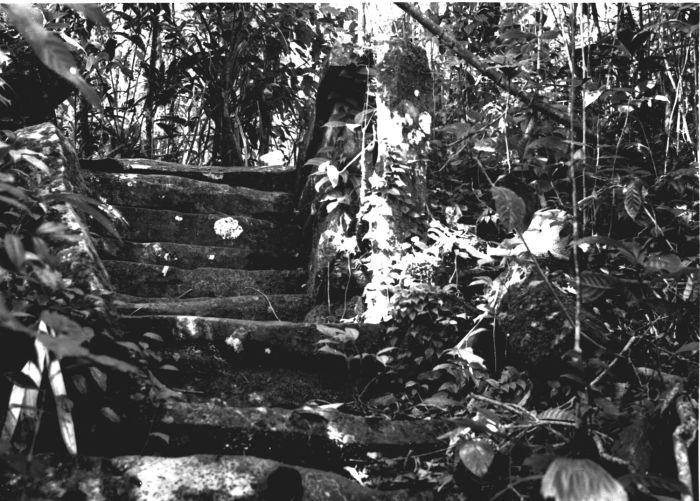 Ruins in the forest near the Goenoeng Manik rubber- and tea plantation at Lampegan